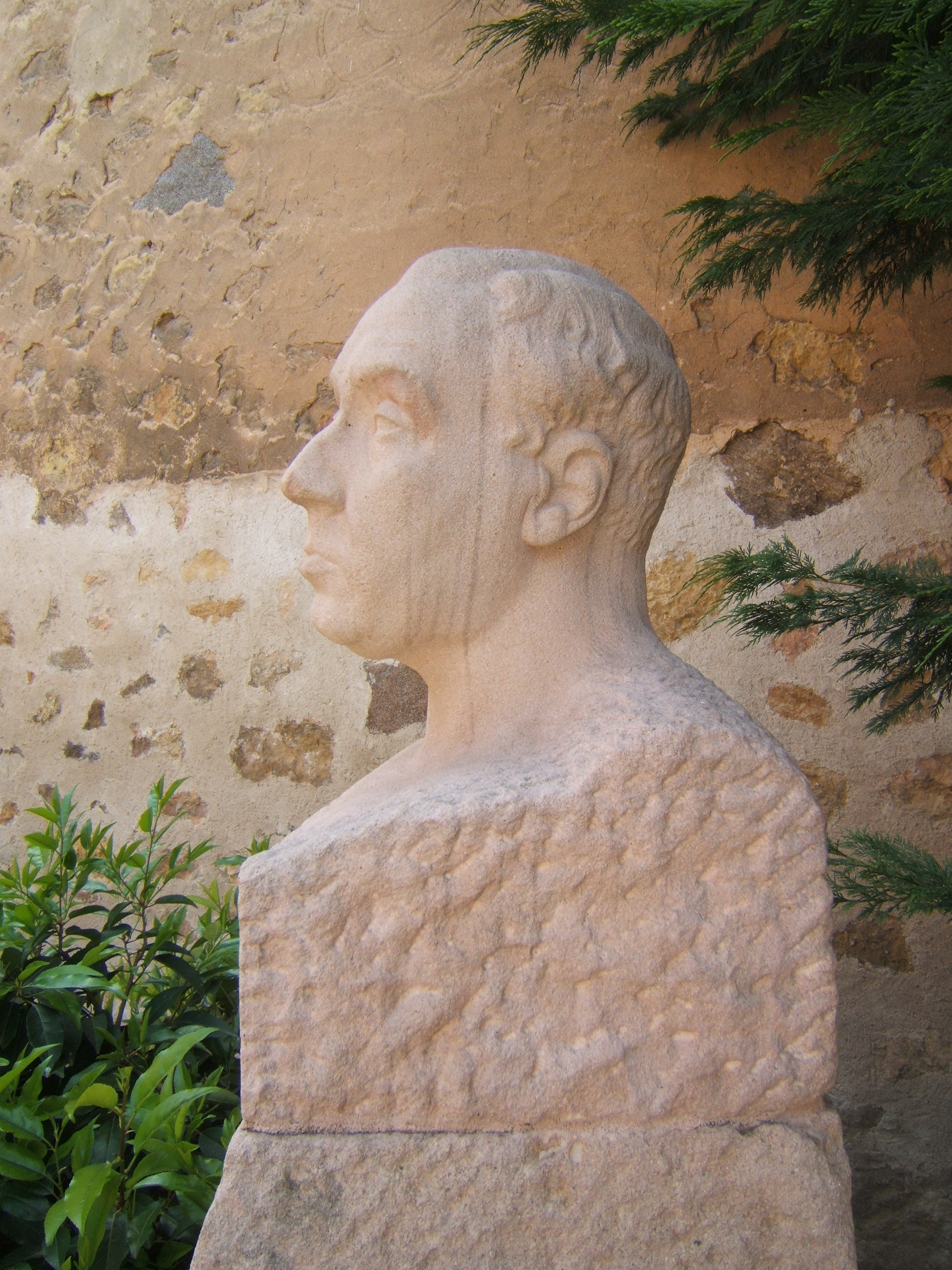 Bust of Antonio Machado, work of Emiliano Barral in 1920 (copy of his brother Pedro Barral). Installed in the garden of the House-Museum of Machado in Segovia (Spain).